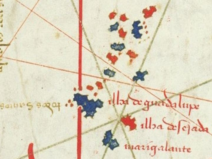 The Cantino planisphere, completed by un unknown Portuguese cartographer in 1502, is one of the most precious cartographic monuments of all times. It depicts the world, as it became known to the European after the great exploration voyages of the end of the fifteenth and beginning of the sixteenth century to the Americas, Africa and India. It is now kept in the Biblioteca Universitaria Estense, Modena, Italy